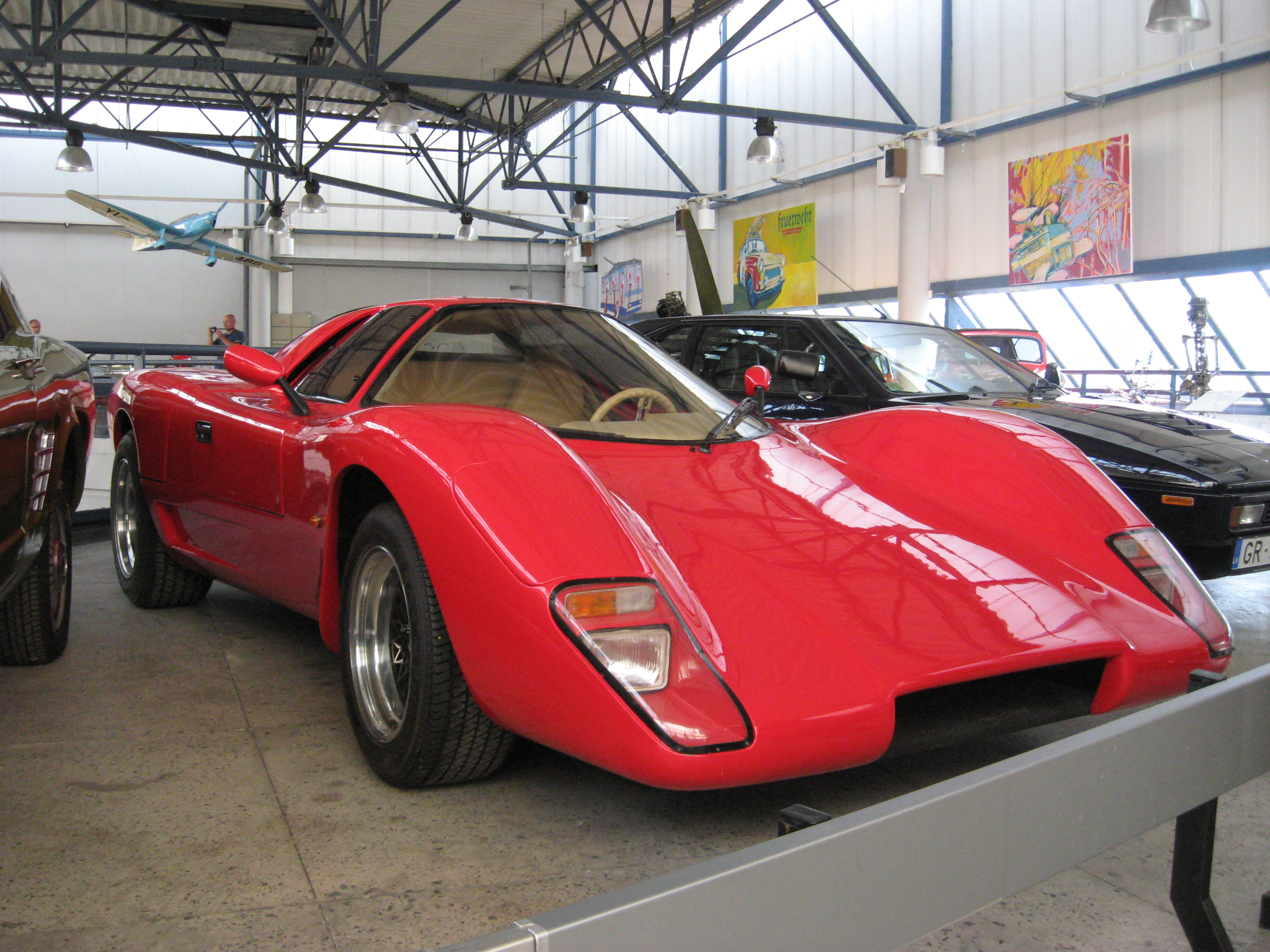 1991 UVA M6, an english kit car developed from the Manta Montage, itself a copy of the McLaren M6GT. 4000 cc V8 engine giving 300 HP at 7000 rpm. 800 kg weight. 0 to 100 km/g in 4 seconds.